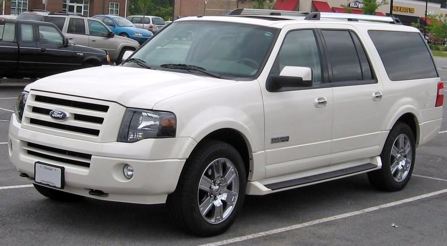 2007 Ford Expedition photographed in USA.